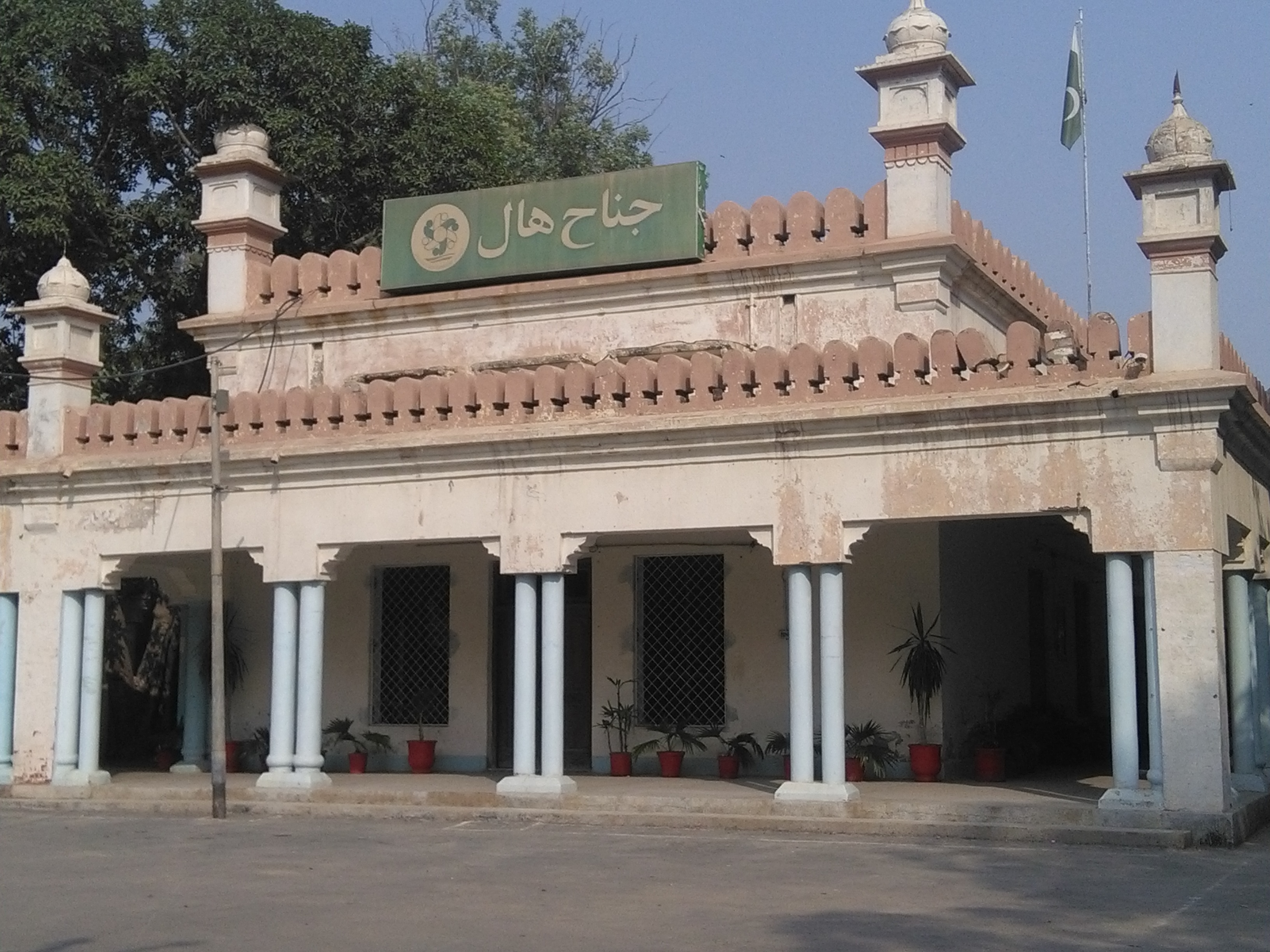 Jinnah Hall This is a photo of a monument in Pakistan identified as the PB-U-23